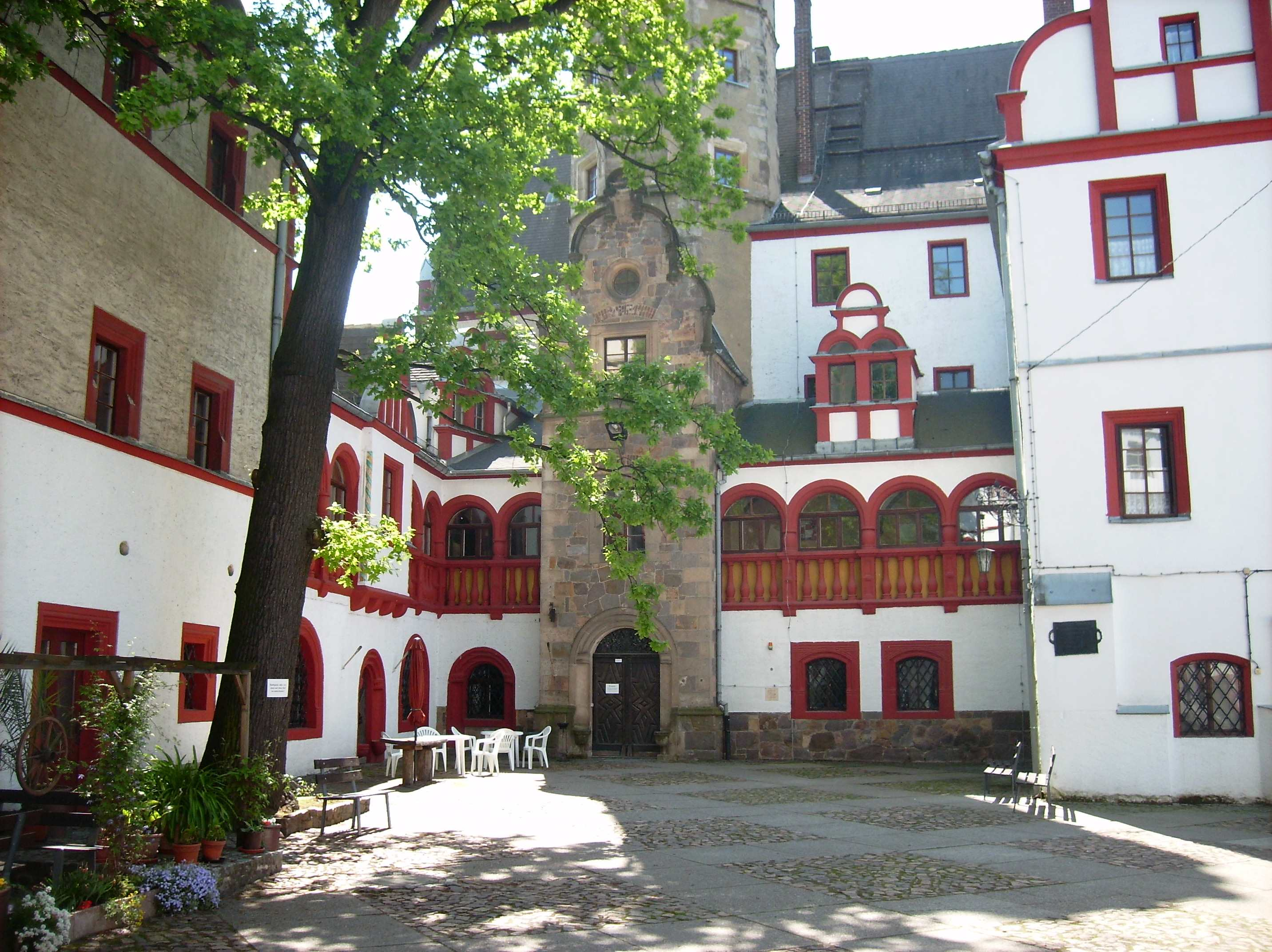 Inner courtyard of Windischleuba Castle (district of Altenburger Land, Thuringia)